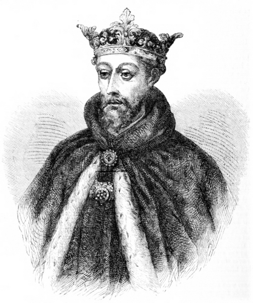 The title is the same as the image caption above & in "Cassell's Illustrated History of England, Volume 1". The number shown is the page number. Follow the image link to the full book.